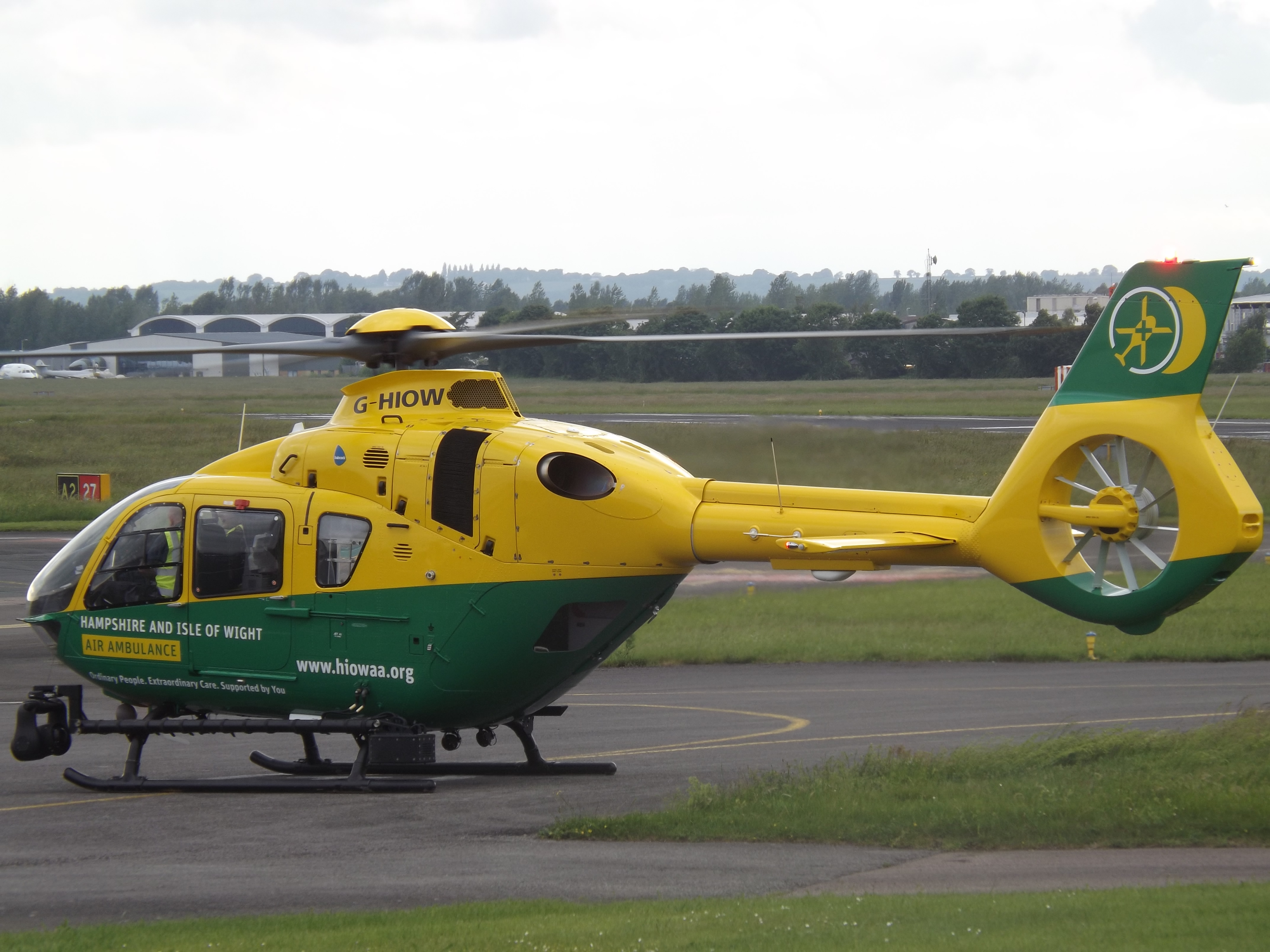 At Gloucesteshire Airport.